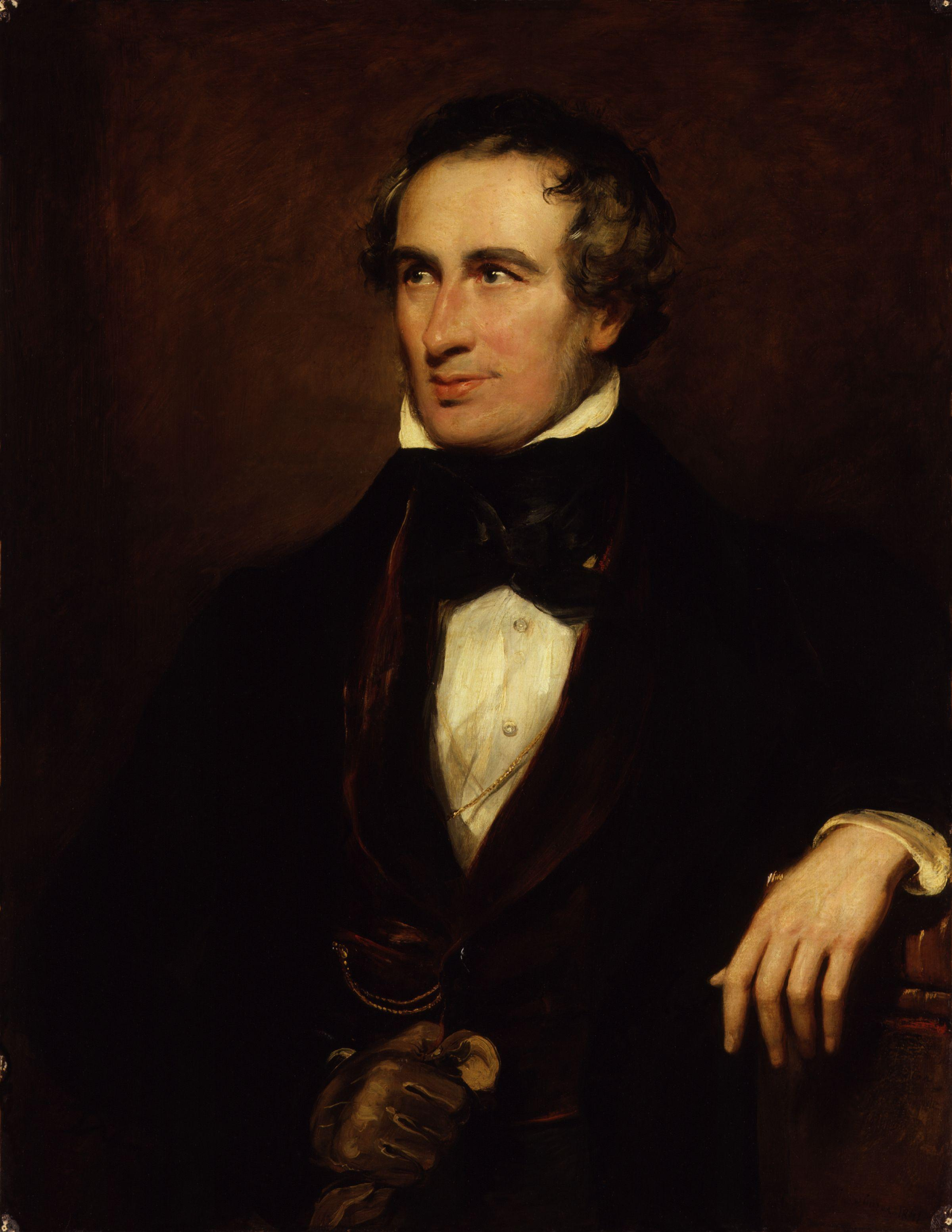 John Burnet, by William Simson (died 1847). All images in this batch have been confirmed as author died before 1939 according to the official death date listed by the NPG.